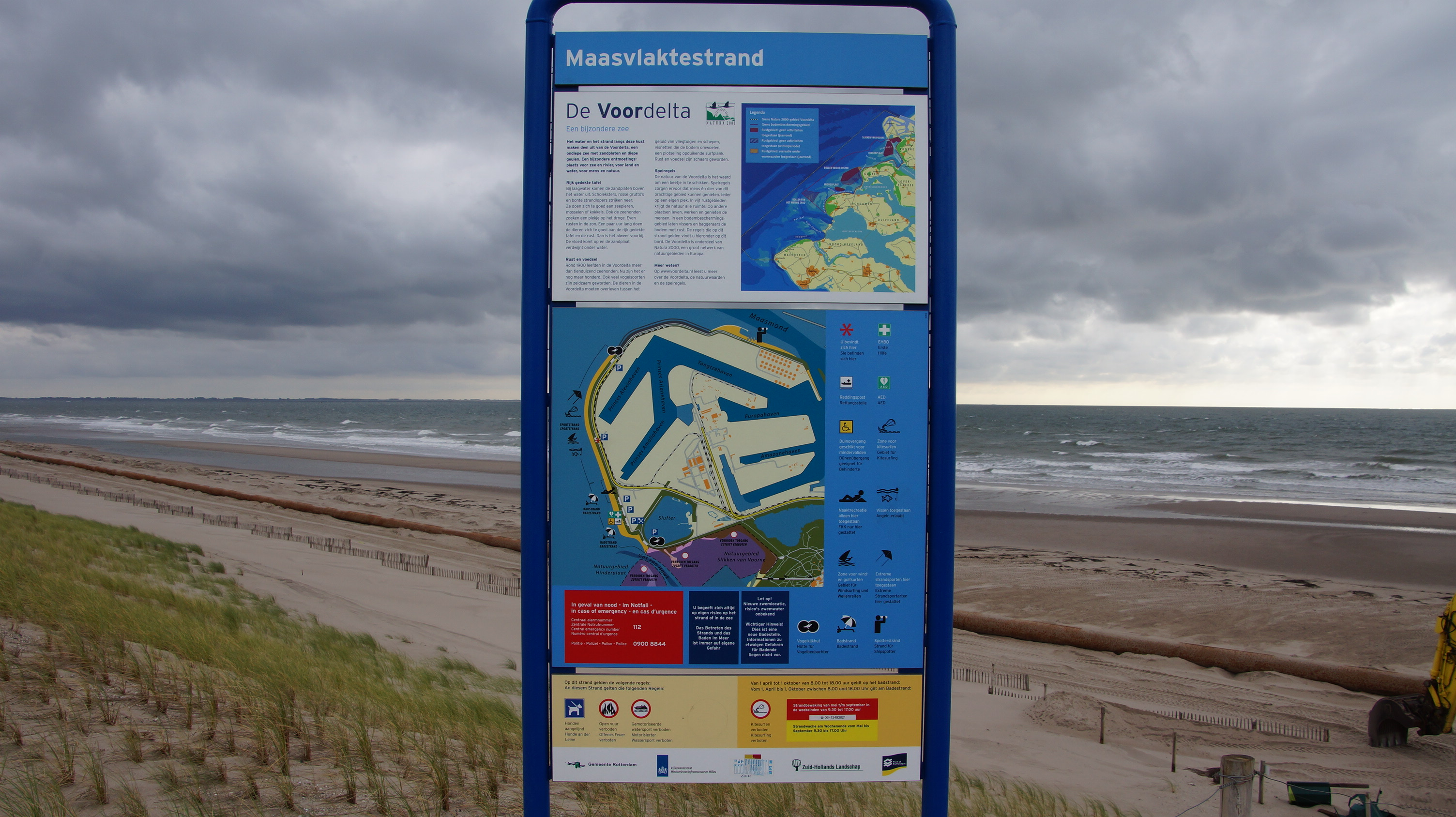 Maasvlaktestrand near to the mouth of the Maas near Rotterdam. Sign showing Amazonehaven, Europahaven, Prinses Amaliahaven, Prinses Alexiahaven, Prinses Arianehaven and Yangtzehaven